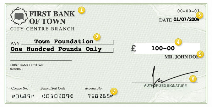 Annotated example of cheque